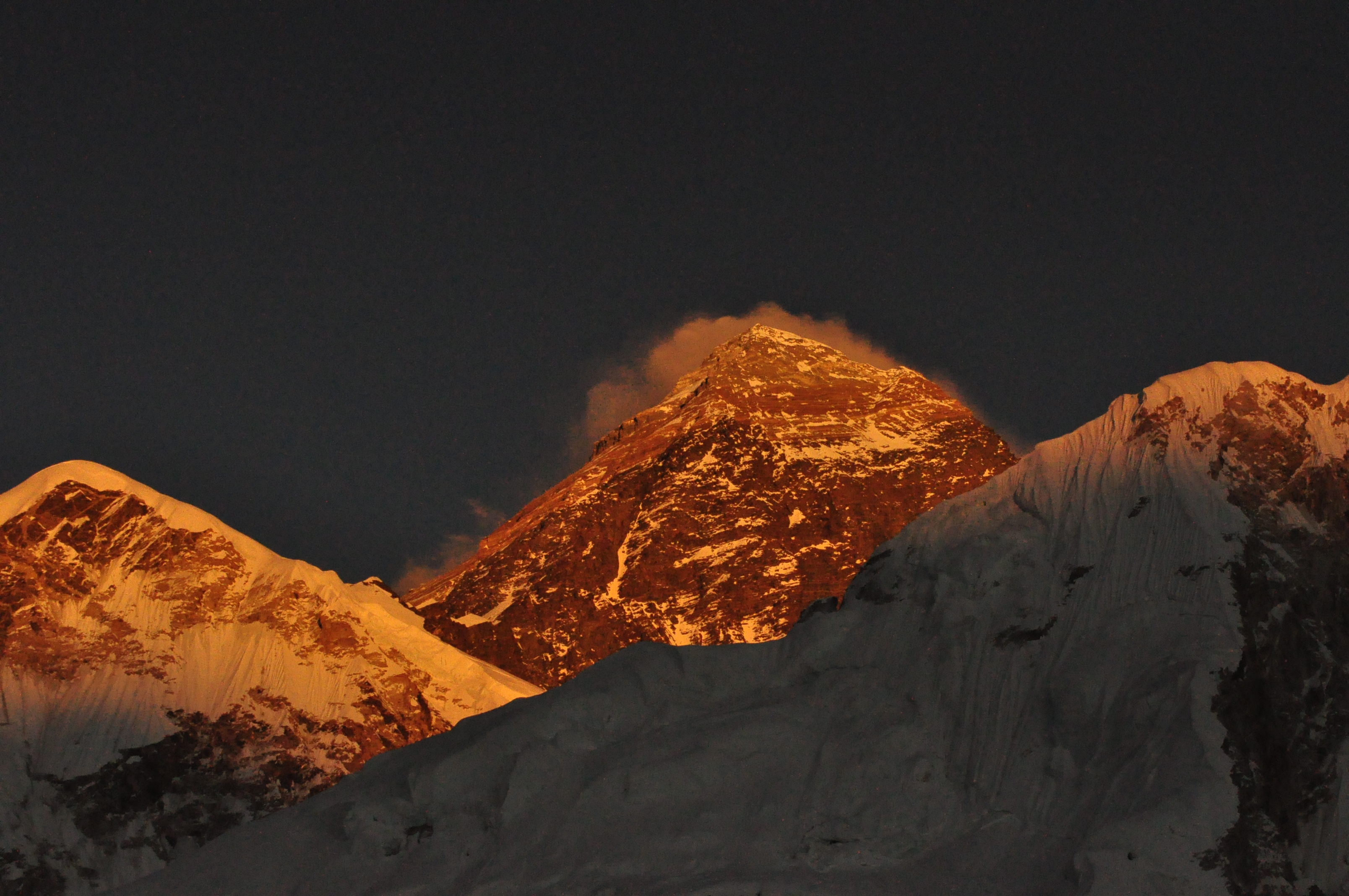 Mt Everest